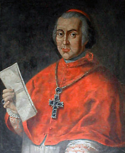 Tommaso Arezzo (1756-1833), cardinal of the Roman Catholic Church